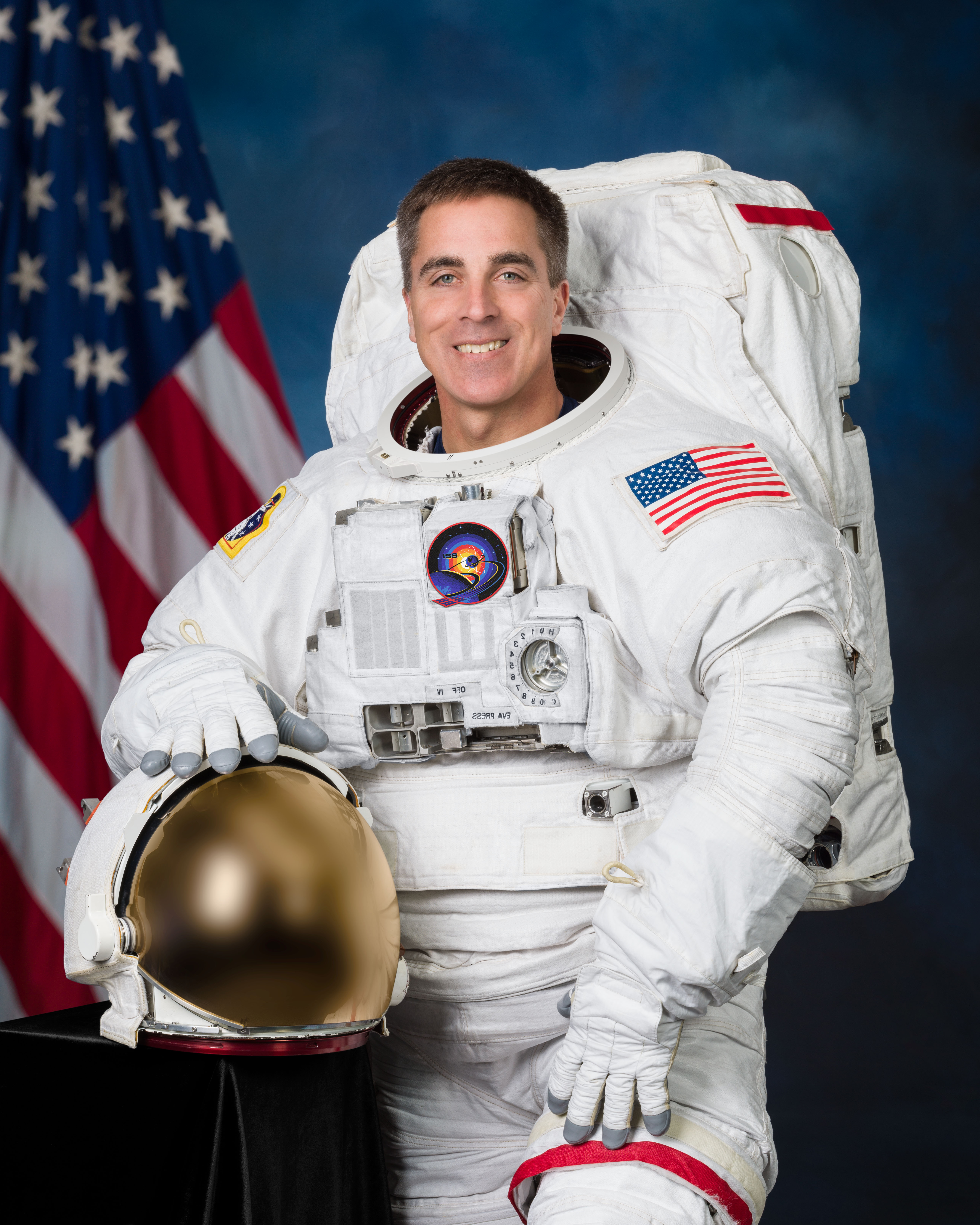 Official NASA portrait of astronaut Chris Cassidy.